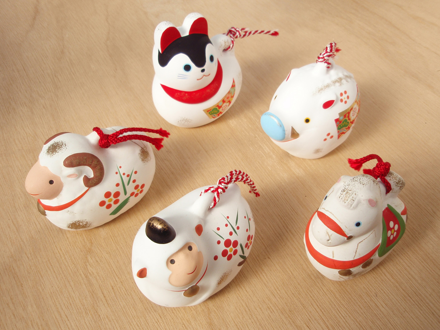 Dorei is one of the Japanese amulets.